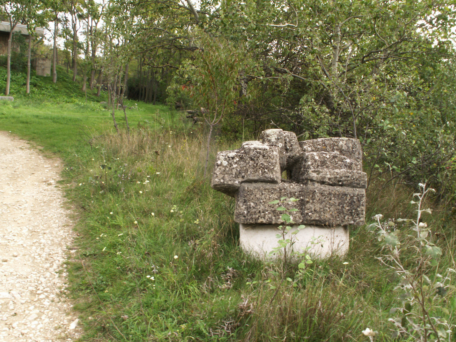 „Symposion Europäischer Bildhauer“, St.Margarethen – Burgenland/Austria, Peter Knapp, 1964